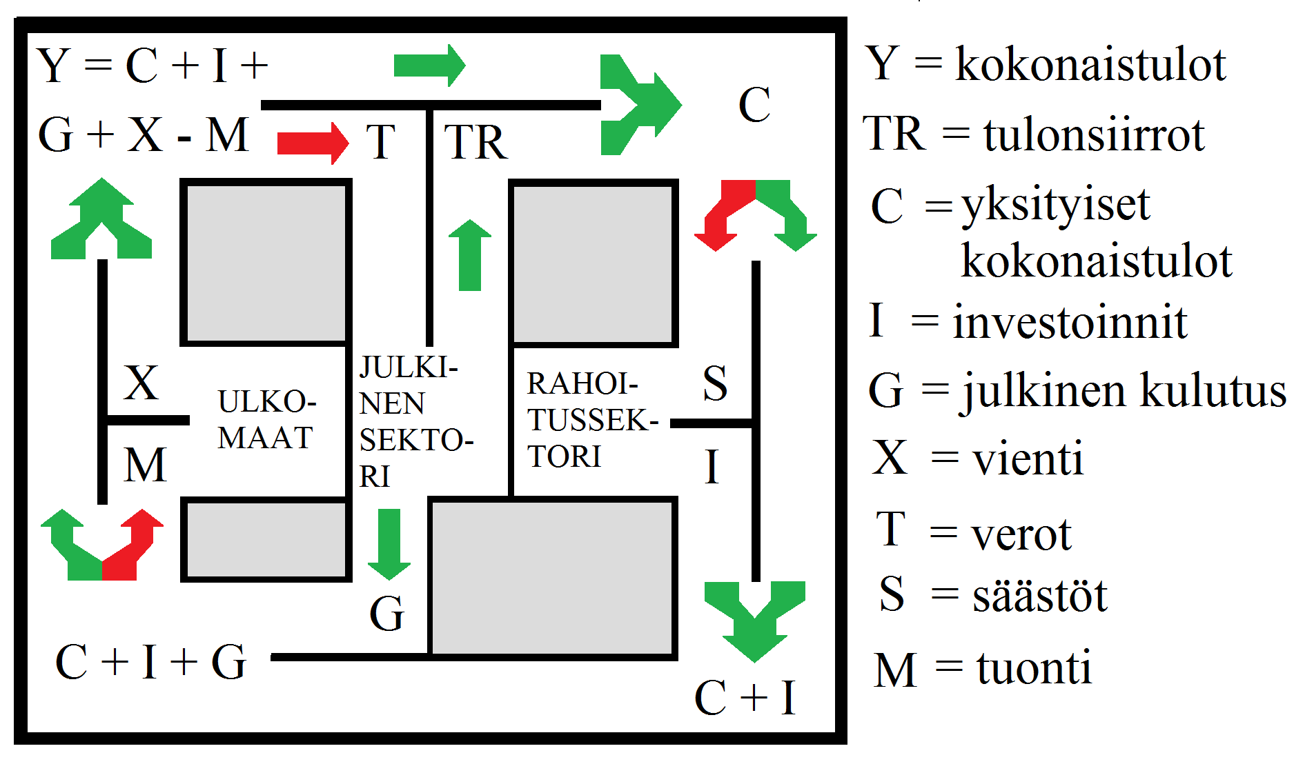 the circular flow diagram